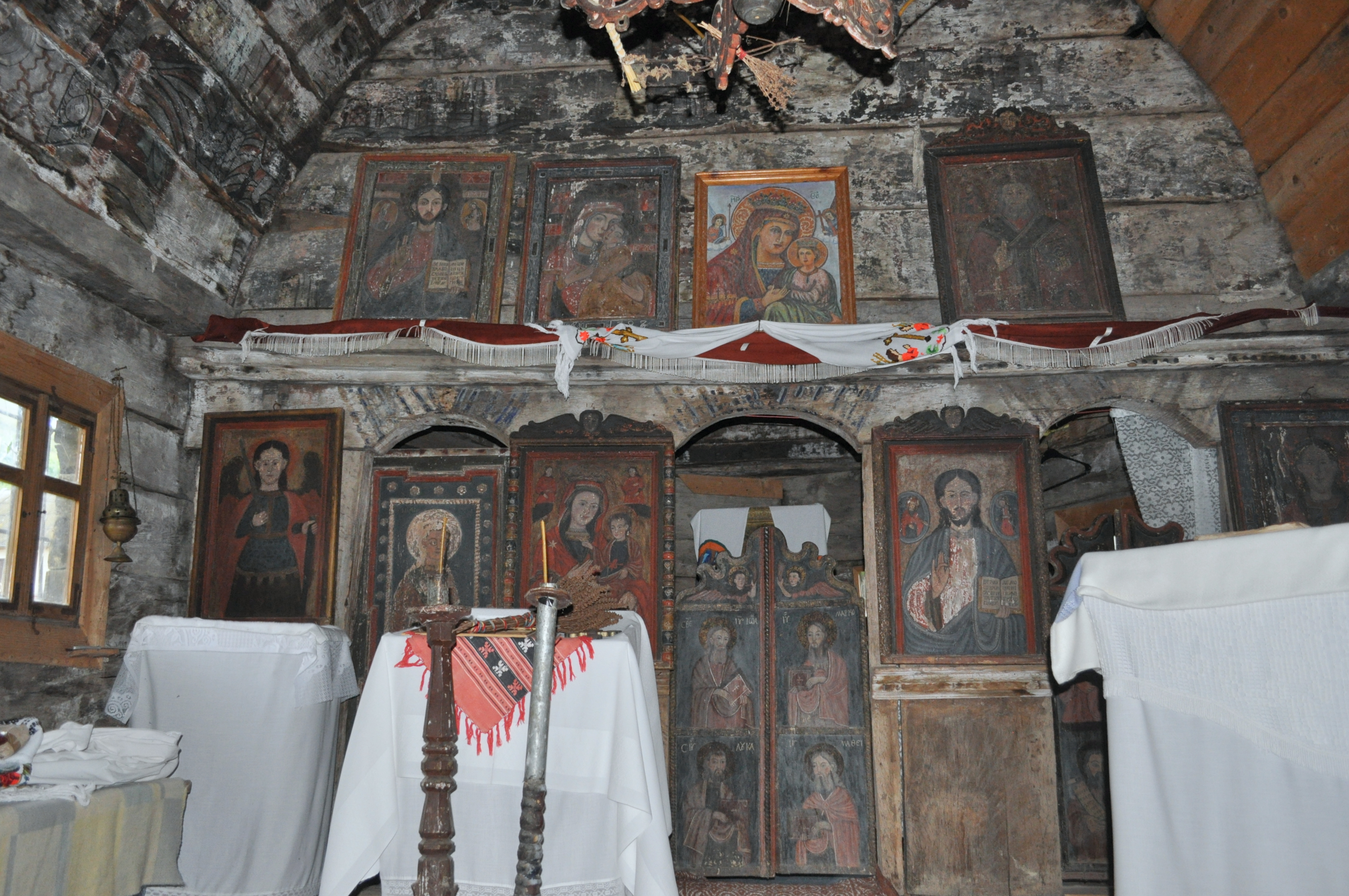 Wooden church in Strugureni, Bistrița-Năsăud countyRomână: Biserica de lemn din Strugureni